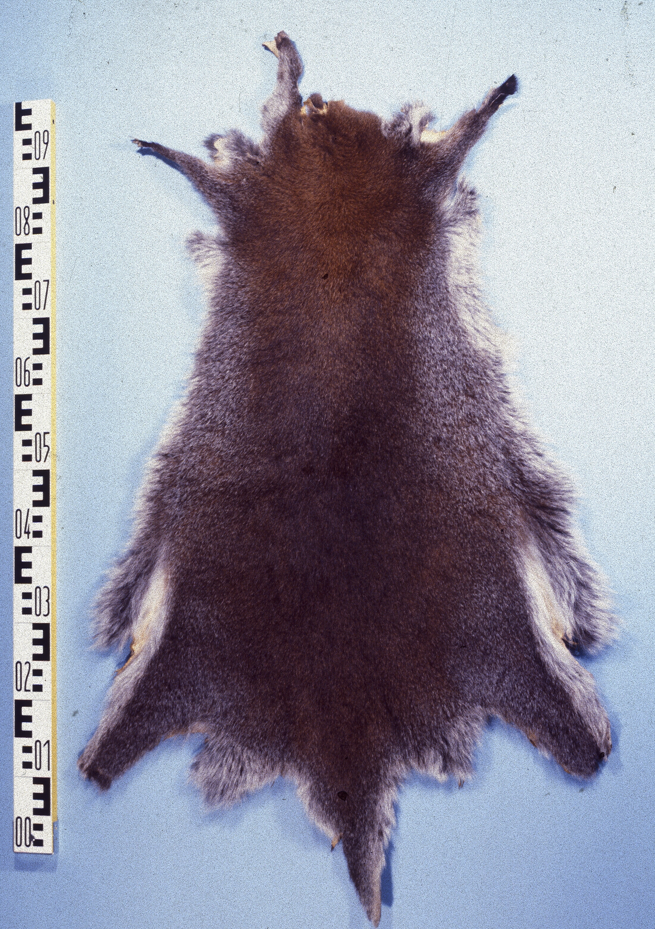 Red-necked wallaby fur skin (Macropus (Wallabia) rufogriseus). Fur skin collection, Bundes-Pelzfachschule, Frankfurt/Main, Germany